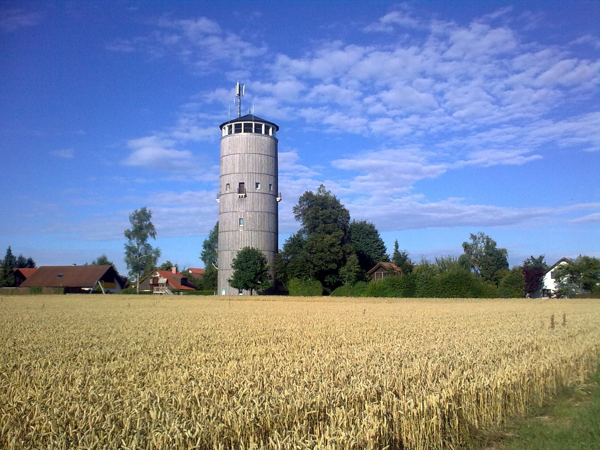 Kaisersbach's water tower